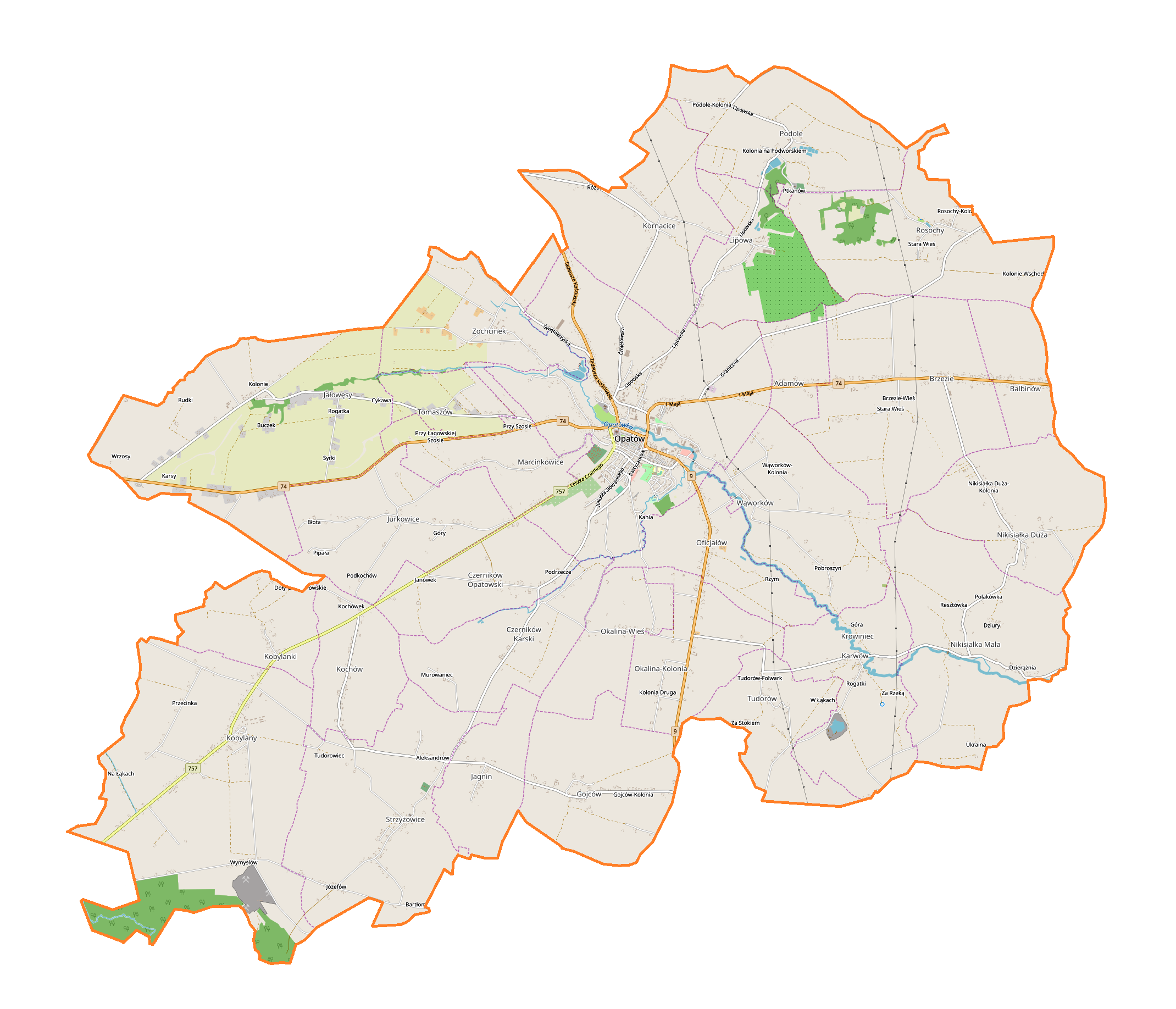 Location map